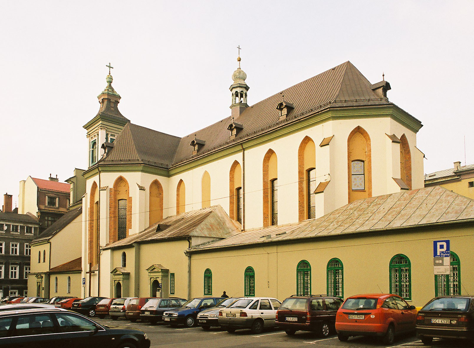 Church of Saint Mary Magdalene in Cieszyn.